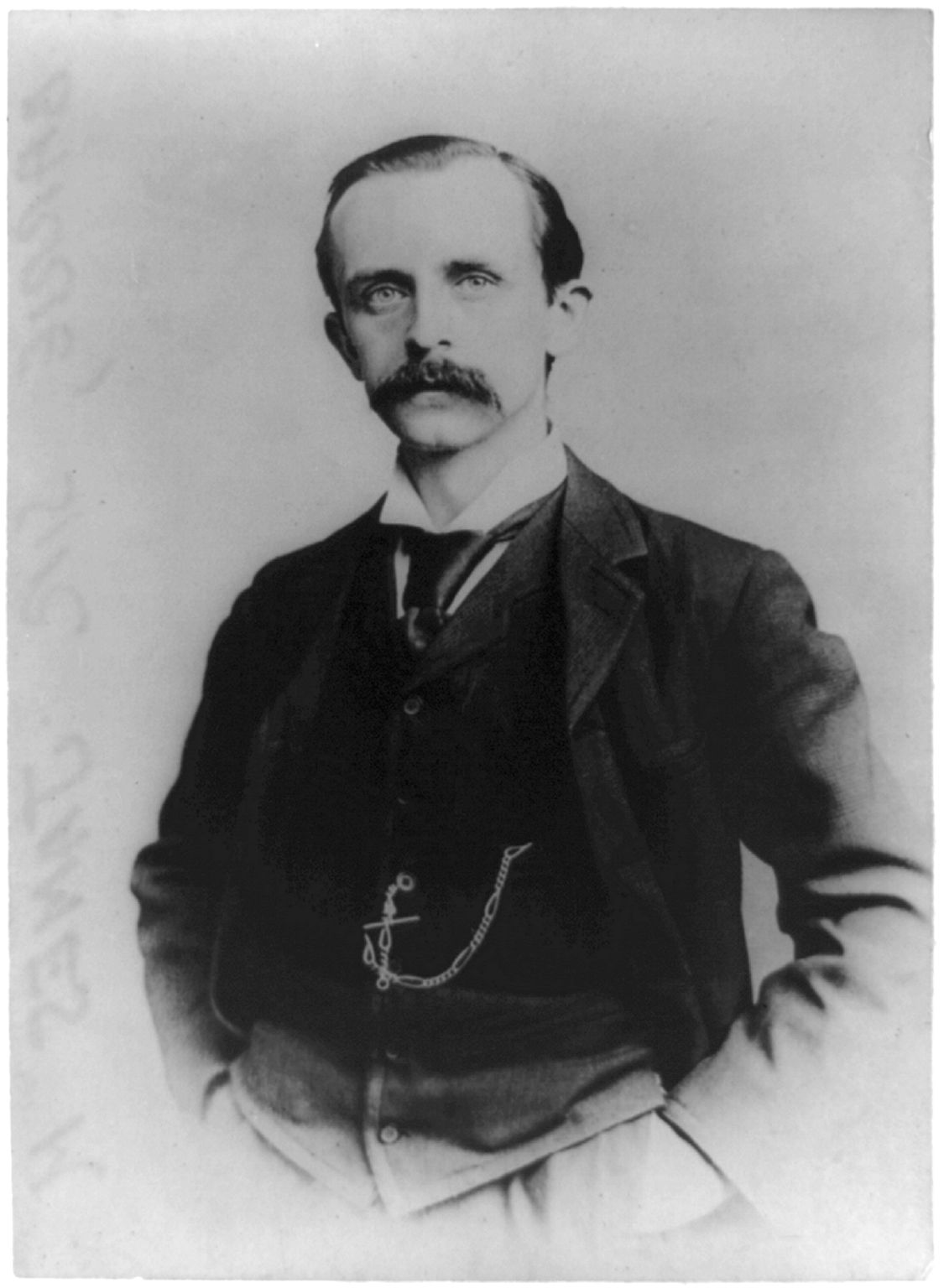 Sir James M. Barrie, author, half-length portrait, standing, facing left, with hands in pockets